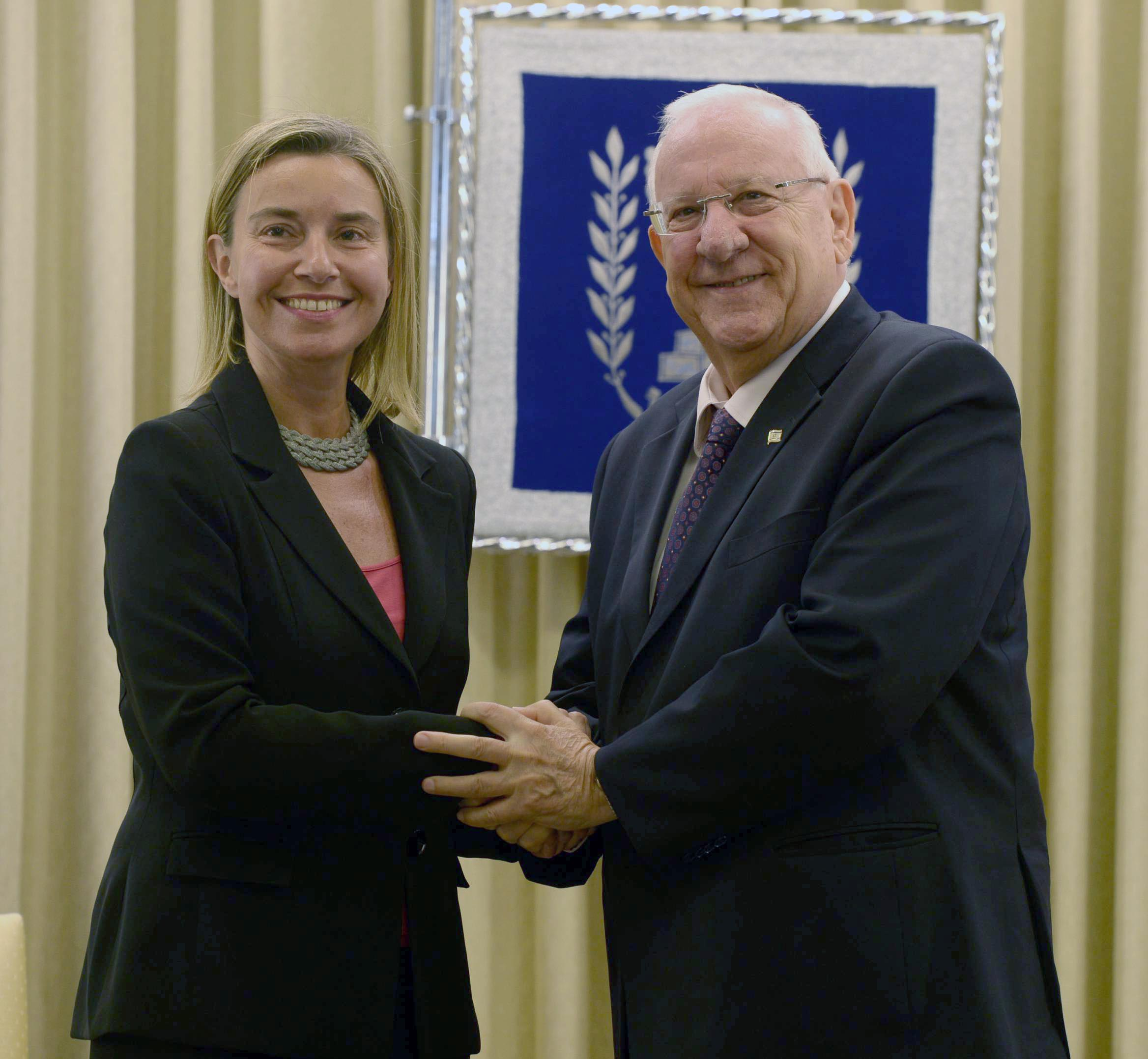 President Reuven Rivlin met with Federica Mogherini, EU High Representative for Foreign and Security Policy. Photo credit: Mark Neyman / GPO.